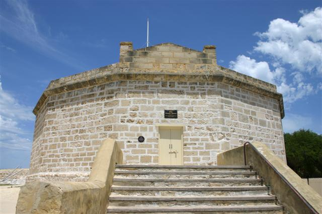 The Fremantle Round House, part of the prison. I took this around about Christmas Day 2004. Category:Images of prisons